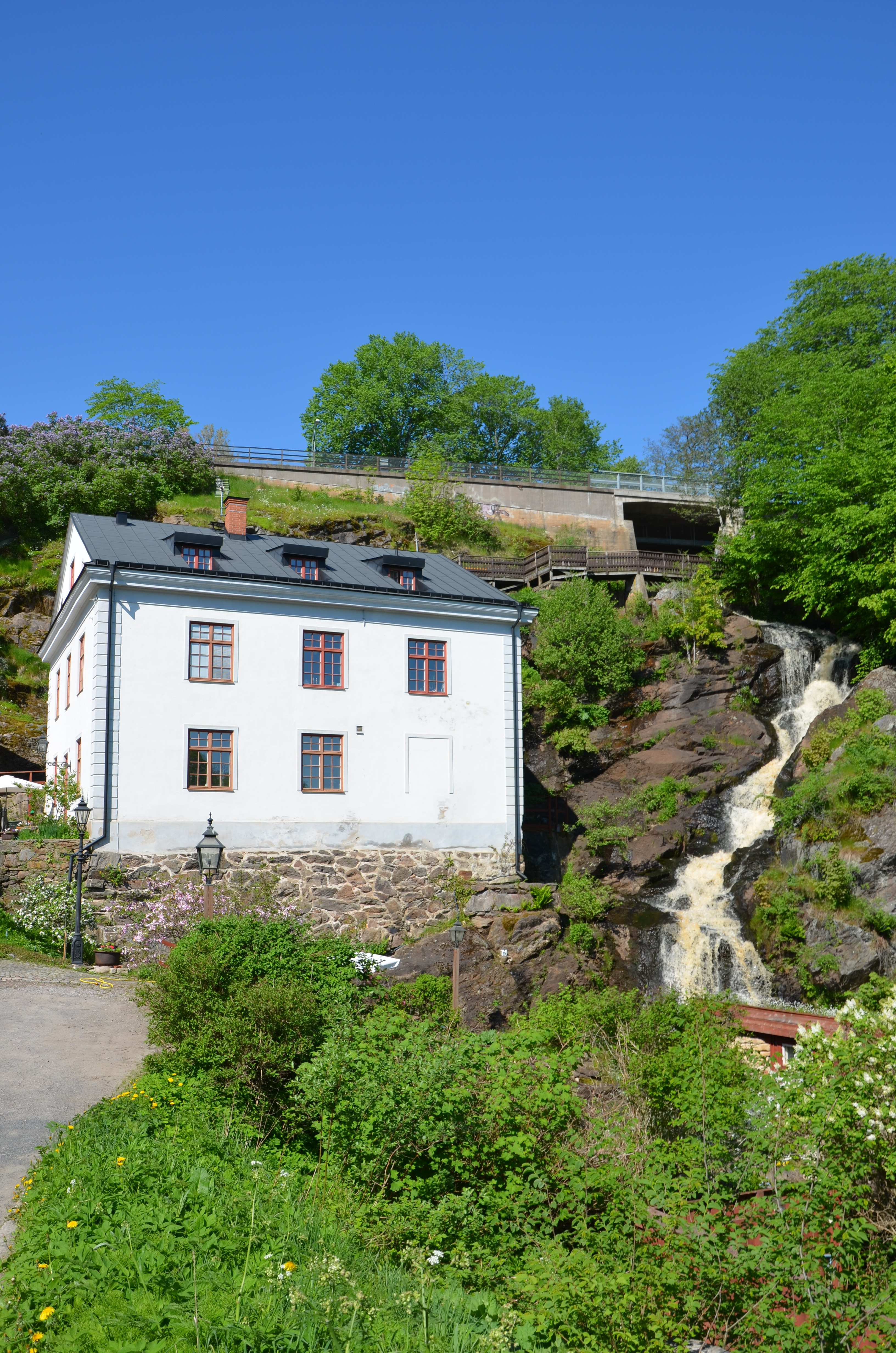 Dunkehallaån, Dunkehalla, Jönköping, Sweden